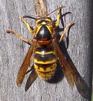 Queen of the median wasp (Dolichovespula media)